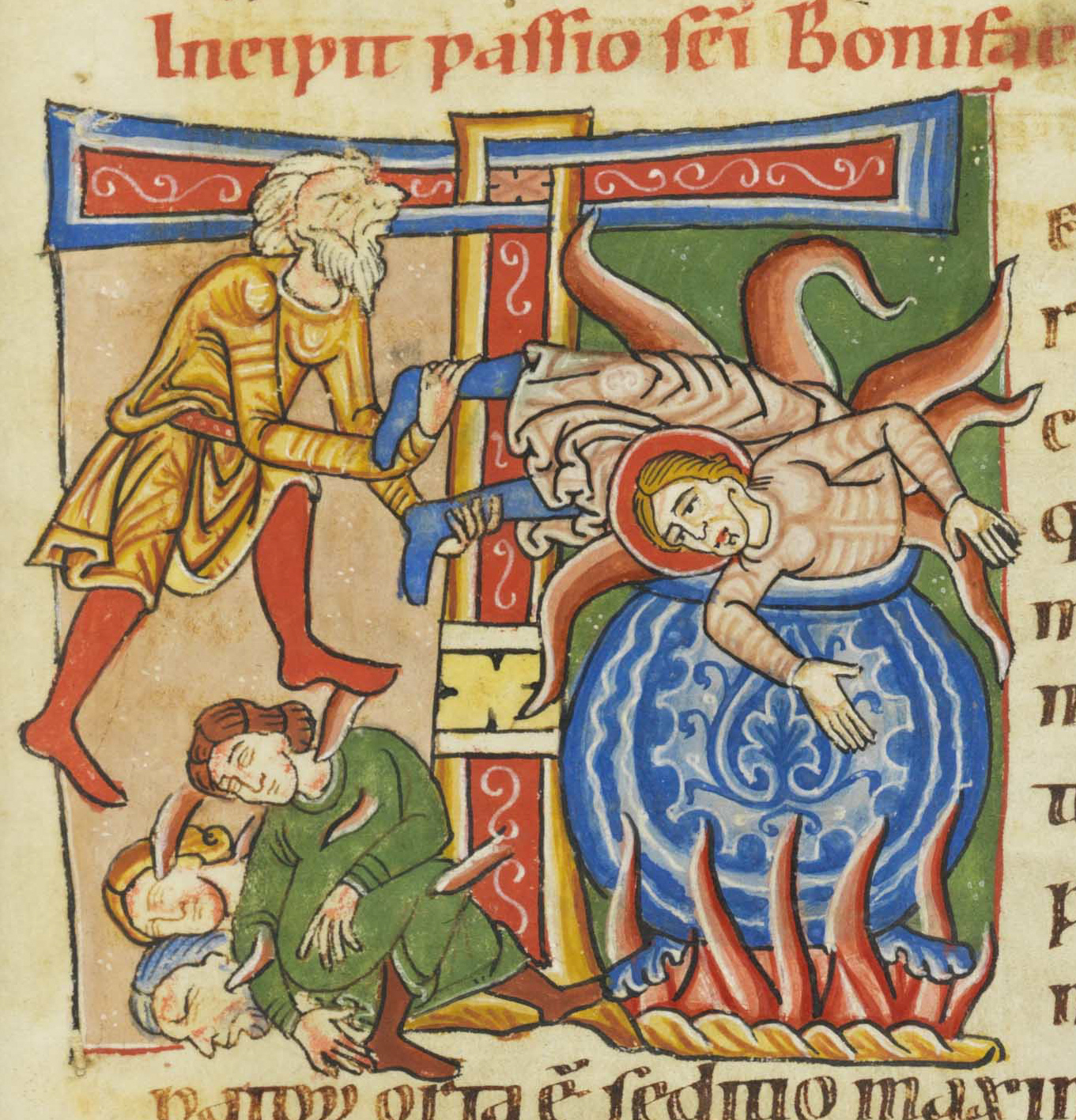 Illumination from the Passionary of Weissenau (Weißenauer Passionale); Fondation Bodmer, Coligny, Switzerland; Cod. Bodmer 127, fol. 71r